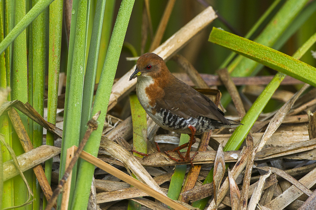 A Red-and-white Crake at Intervales State Park, São Paulo, Brazil.